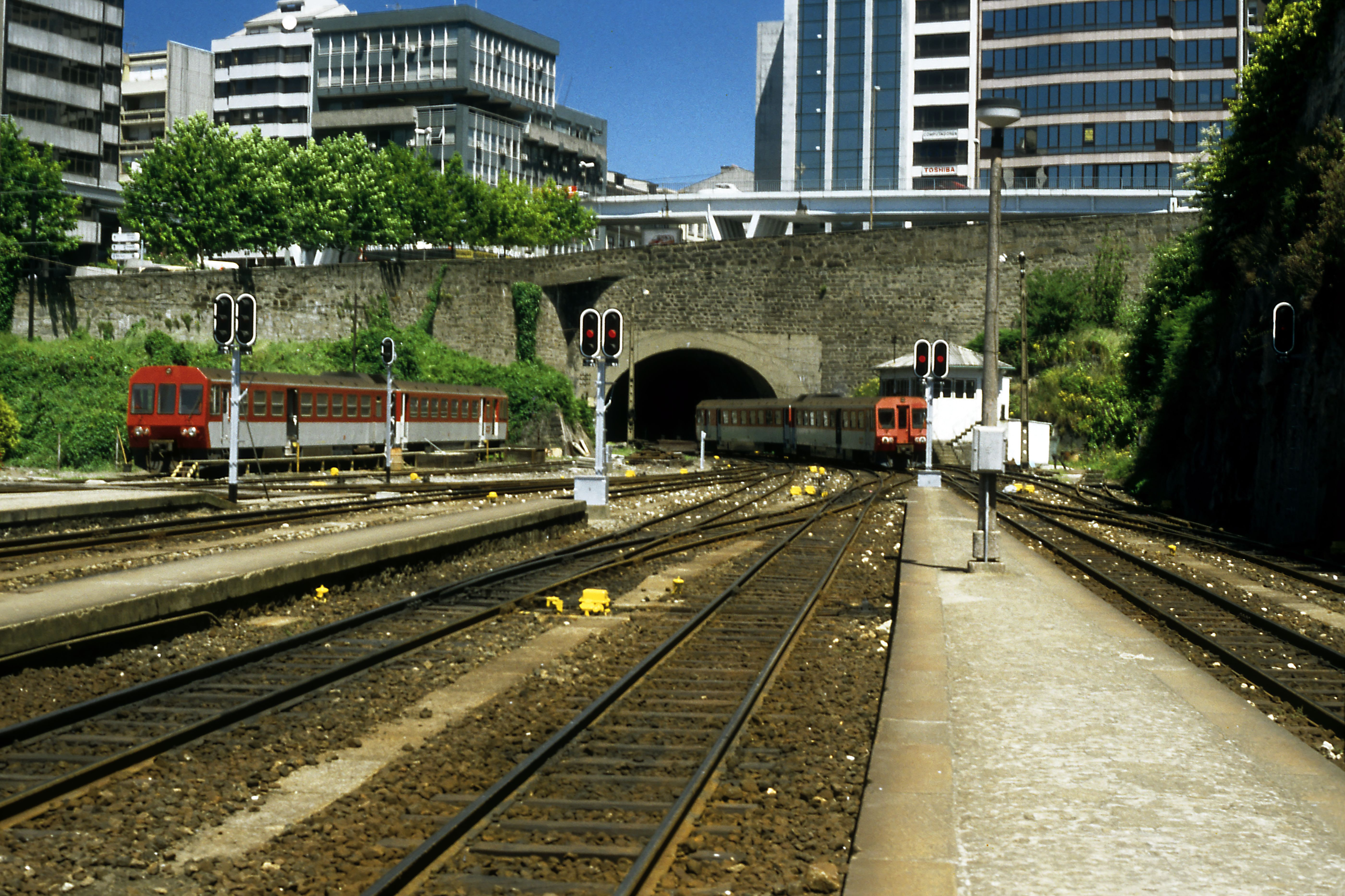 Porto trindade train station before the renovation and conversion for the Metro do Porto